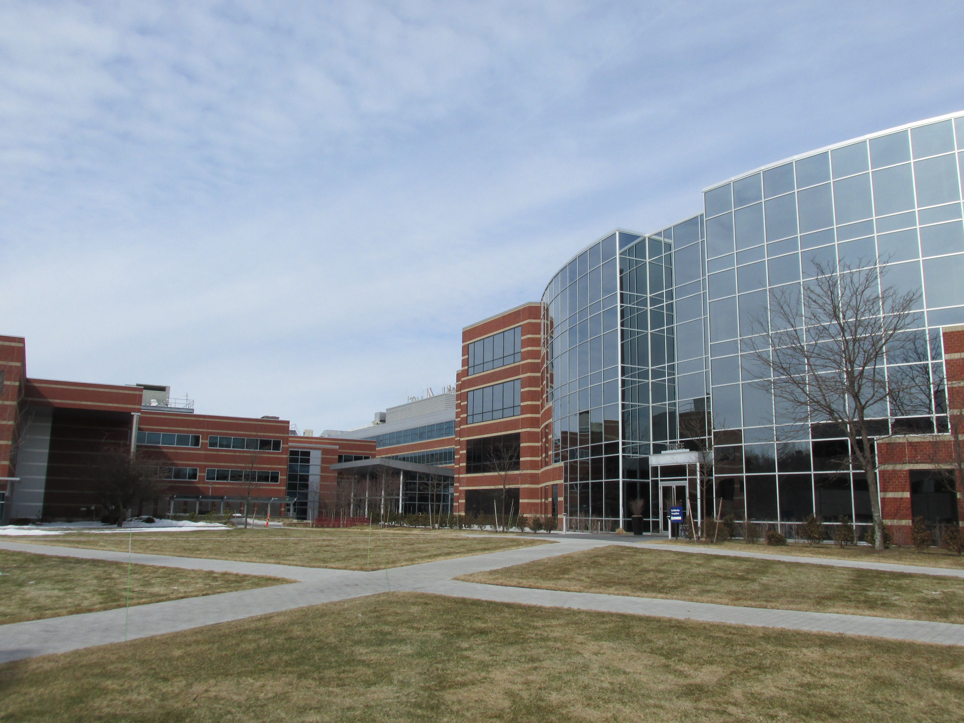 Main campus, MathWorks, Natick Massachusetts - 2014